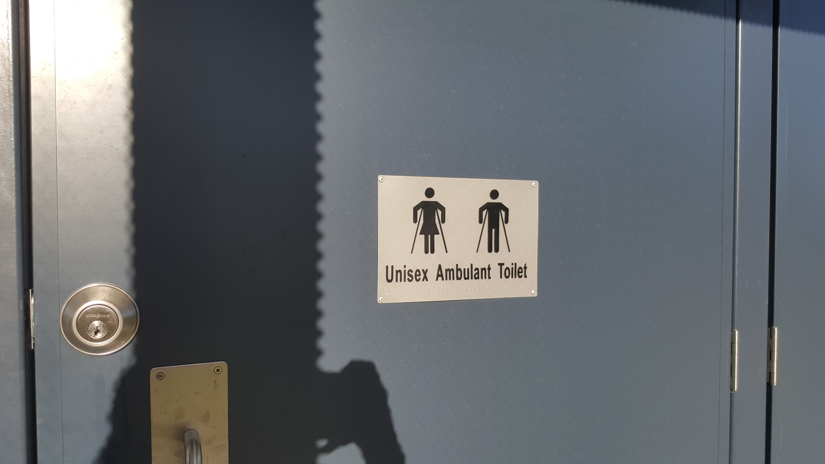 Sign on the door of a public toilet at a playground in the Brisbane suburb of Wishart - accessible toilet, handicapped toilet